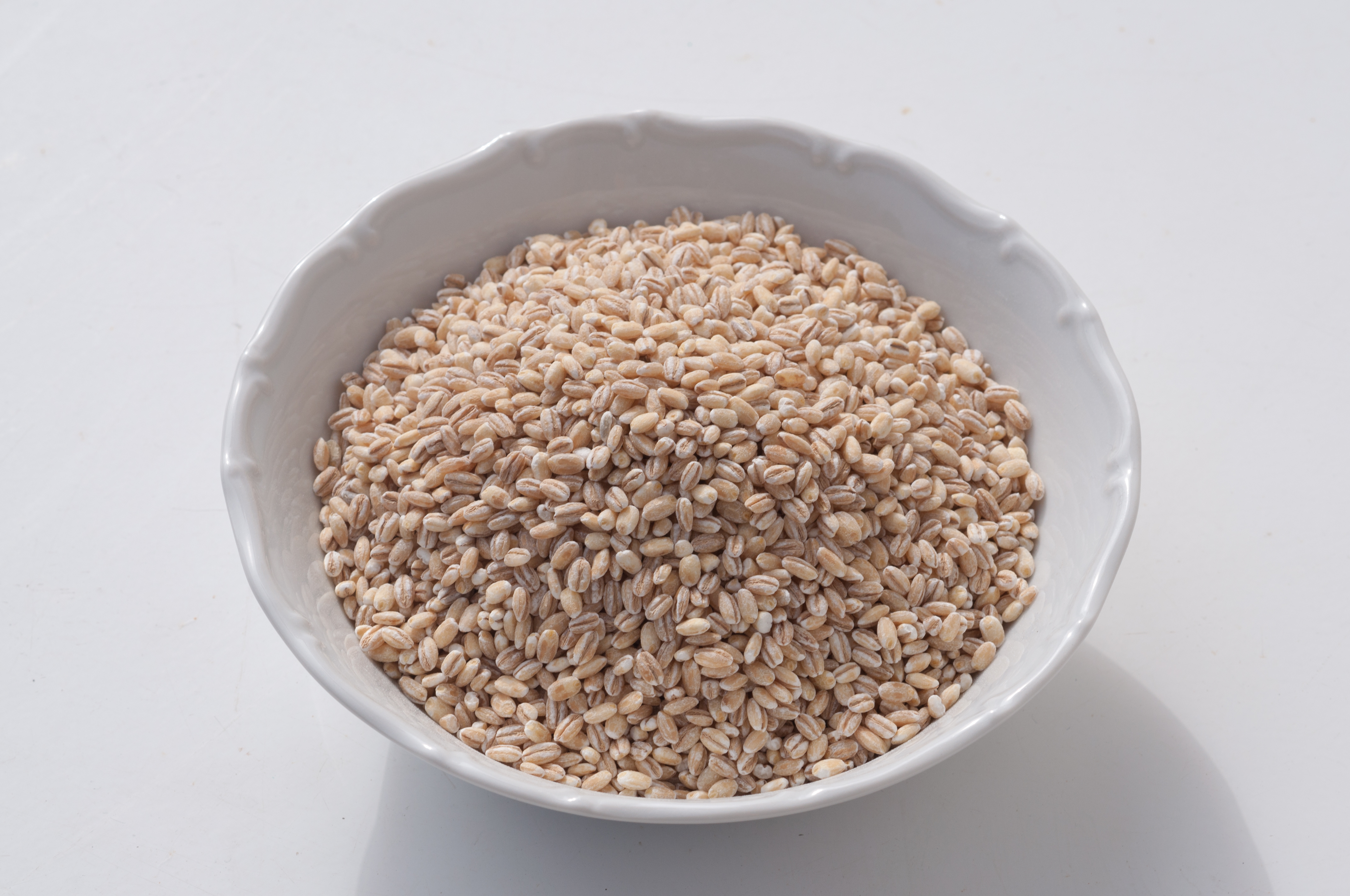 Pearled barley